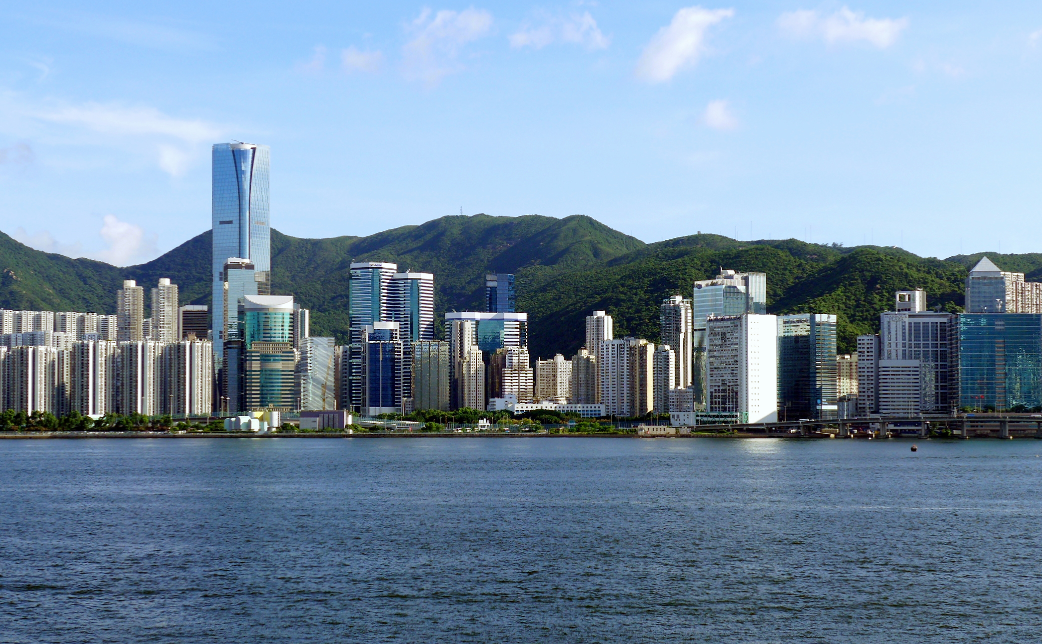 Quarry Bay